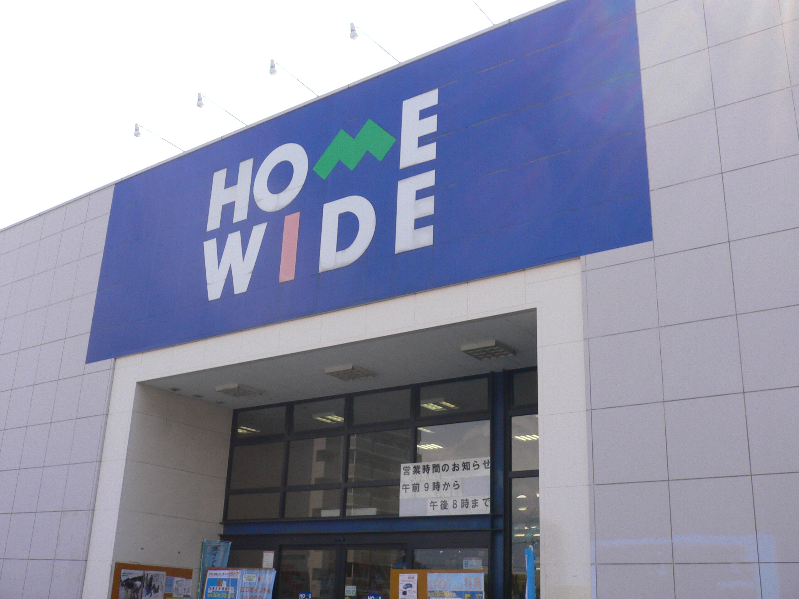 This is a home center in Fukuoka.